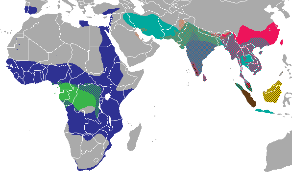 Derived from constituent taxa. It got somewhat hairy around India so I had to resort to multiple textures. Hopefully it's still useful. Also perhaps the colors I used are off one stride on the swatch palate, making them hard to name. H. naso H. ichneumon H. javanicus H. edwardsii H. edwardsii in sympatry with H. javanicus H. smithii in sympatry with H. edwardsii, and locally with H. javanicus H. vitticollis and H. fuscus (black) in sympatry with H. smithii and H. edwardsii H. urva H. brachyurus H. semitorquatus